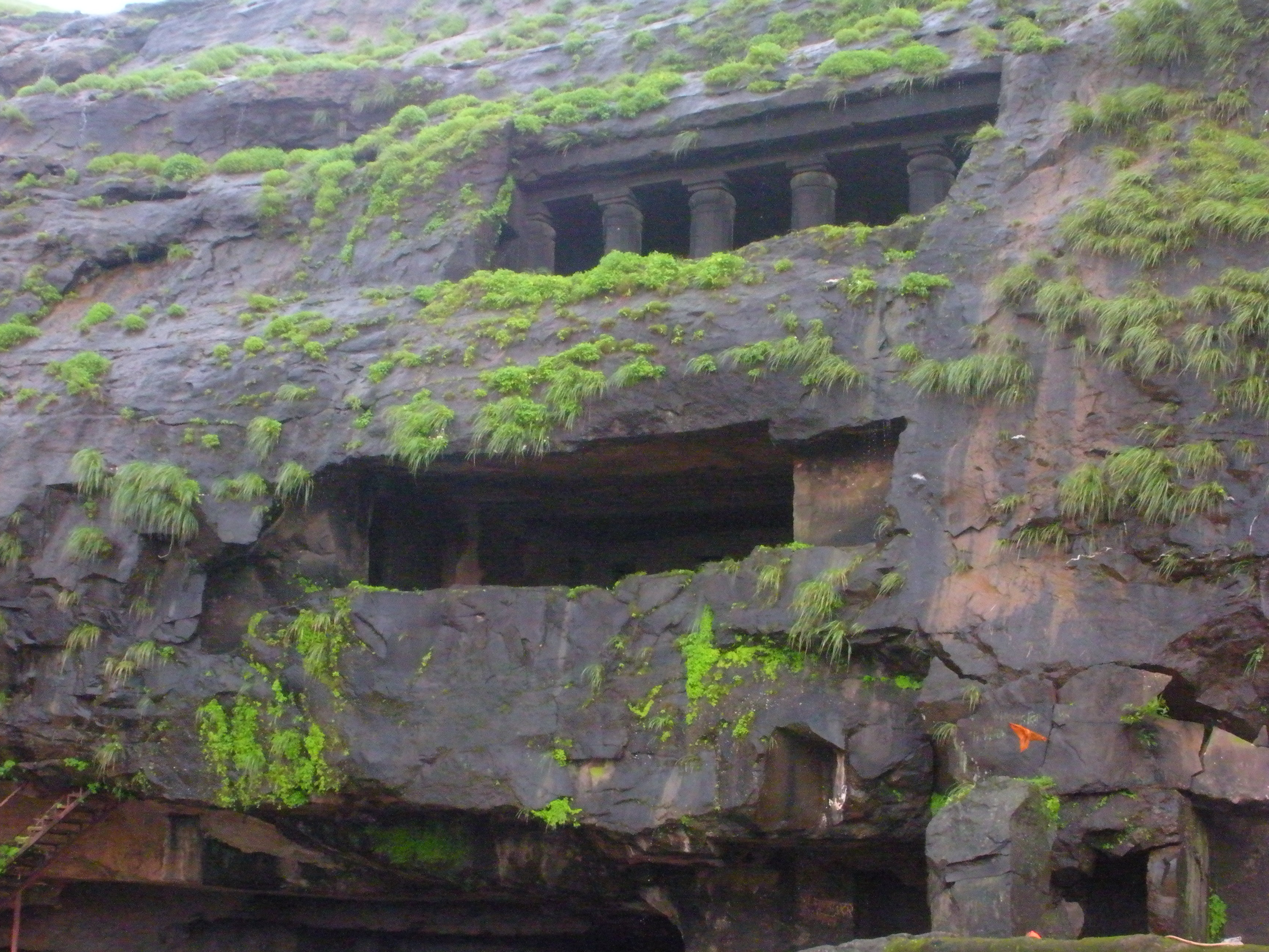 Karla Caves, Maharashtra